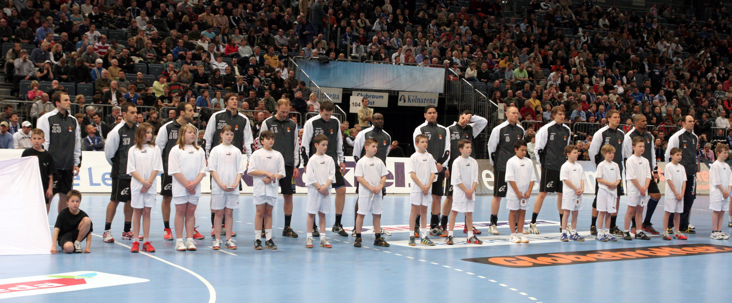 The team of BM Ciudad Real (Spain), in the Kölnarena prior the champions league game VfL Gummersbach vers. BM Ciudad Real on February 20th, 2008